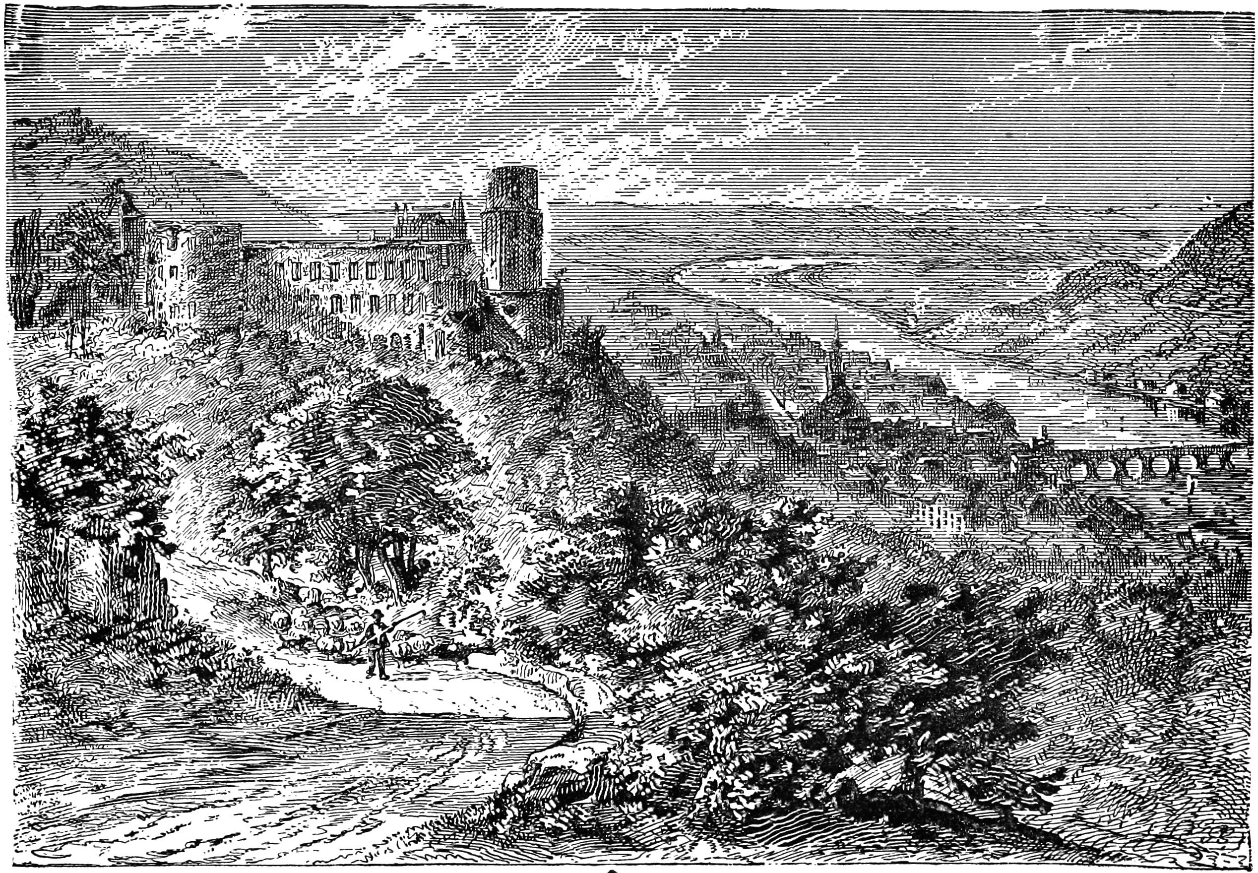 Image from a scanned copy of a book "A Tramp Abroad" (1880) by Mark Twain. Image has been cropped and the sepia tones removed.